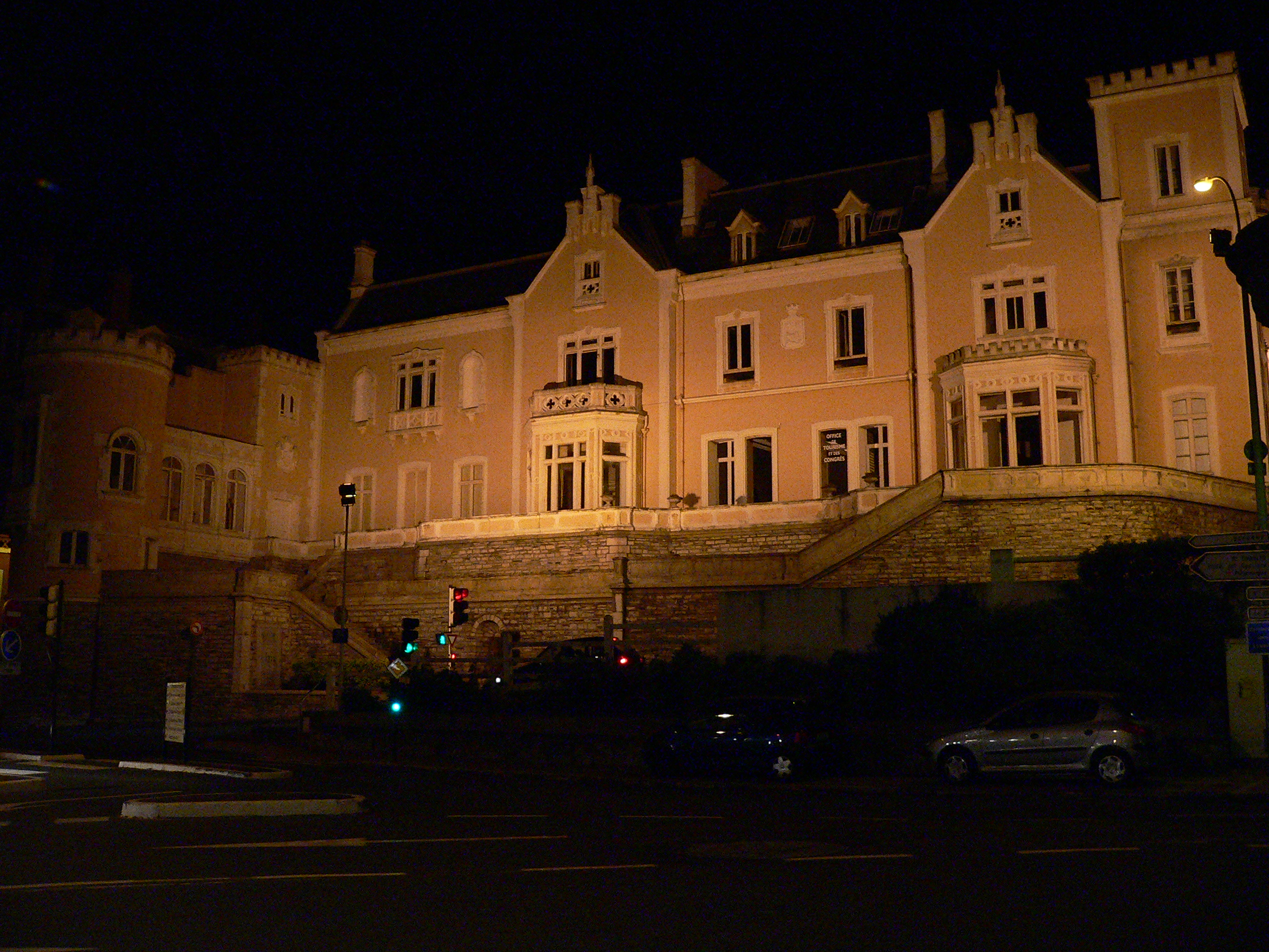 Description: Tourist Office City: Biarritz Country : France Photographer: © Manuel González Olaechea y Franco Shot date : April 29th, 2005